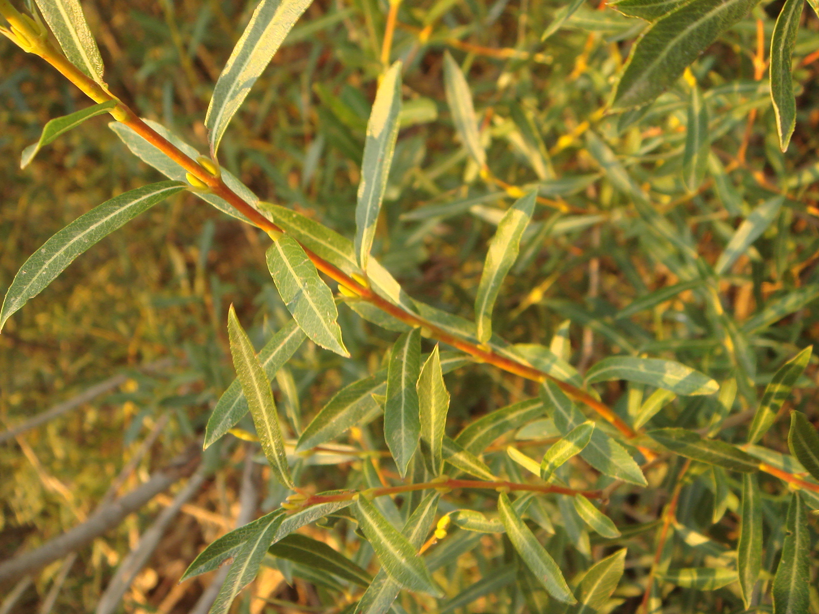 Purple willow, Spain, province of Ávila, La Torre.